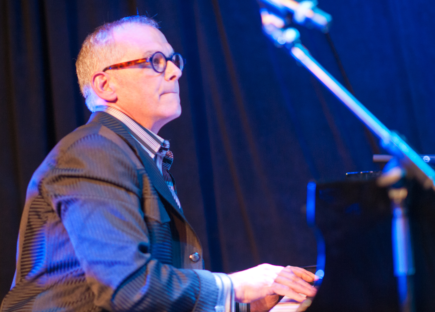 Winter Jazzfest 2012 photo credit: Dave Kaufman